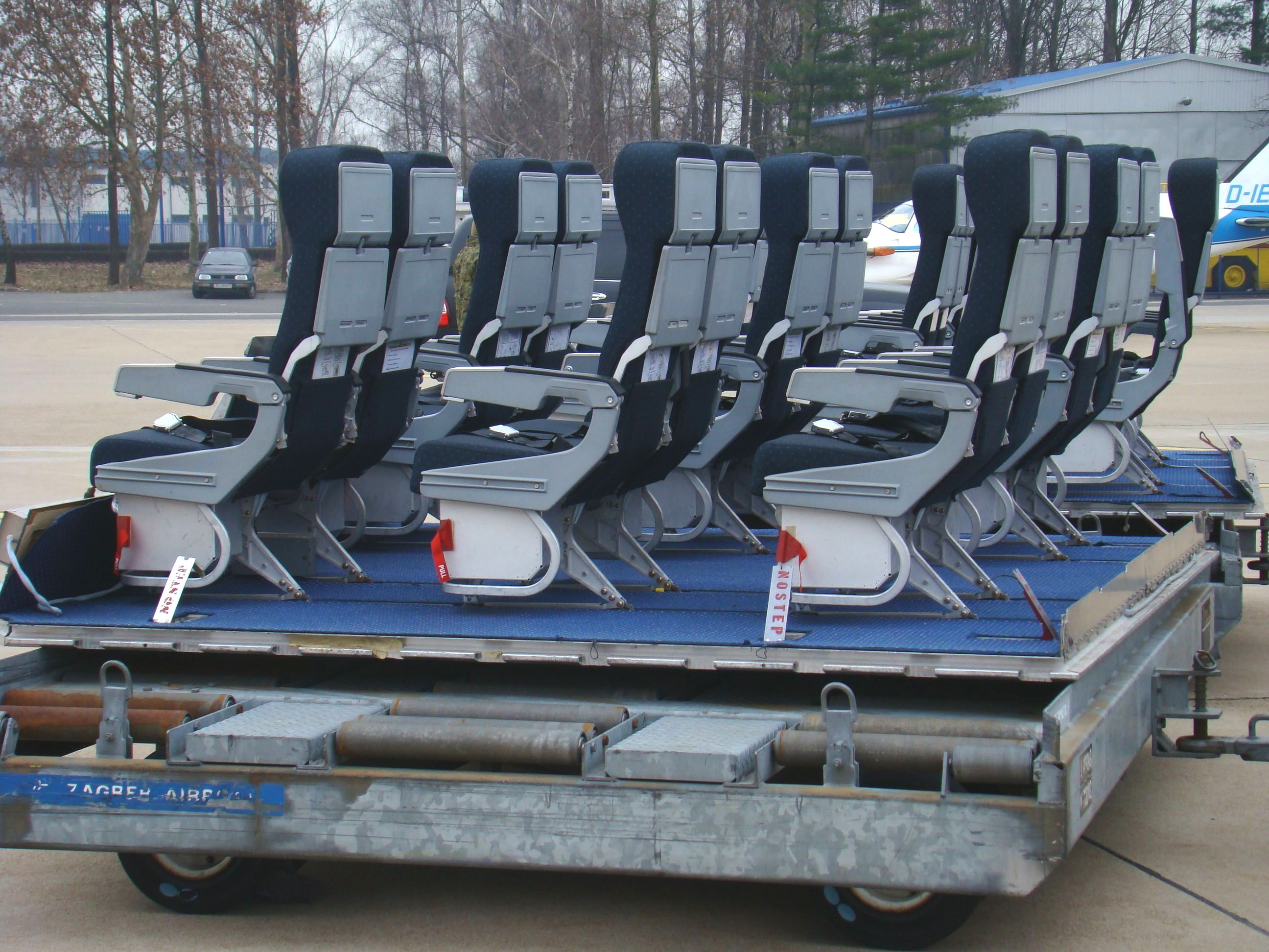 palletized seating allowed faster configuration changes